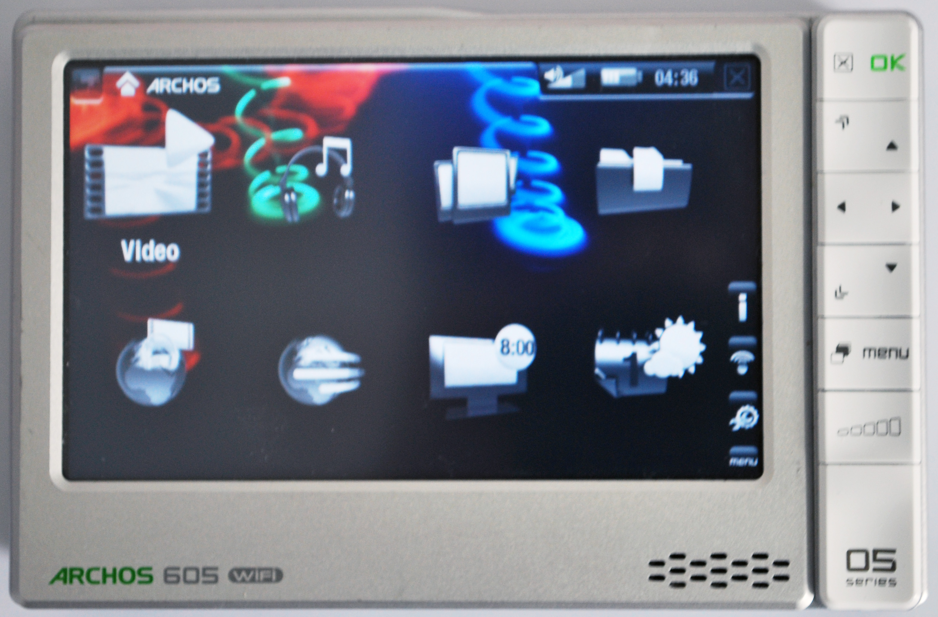 clearer photo of the archos 605 80gb